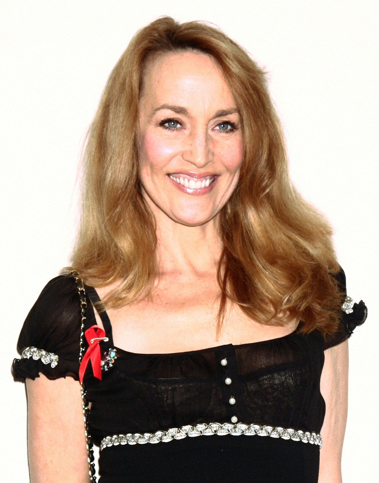 Jerry Hall, Lighthouse Gala Auction in aid of Terrence Higgins Trust. Please attribute photo to Piers Allardyce (cropped)